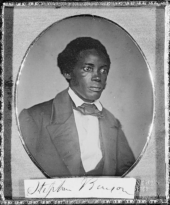 Stephen Allen Benson (* 1816; † 1865), second president of Liberia